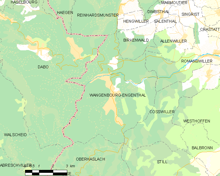 Map of French municipality